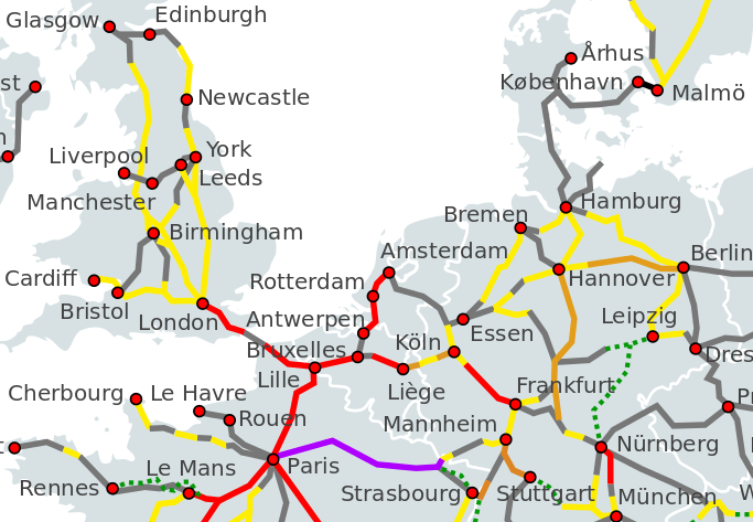 regional part around The Netherlands of the HSR network